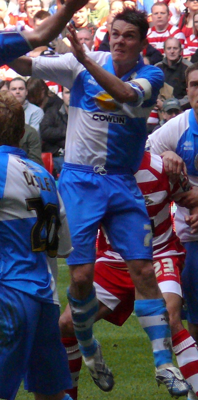 Stuart Campbell, cropped from The Gas defend a corner